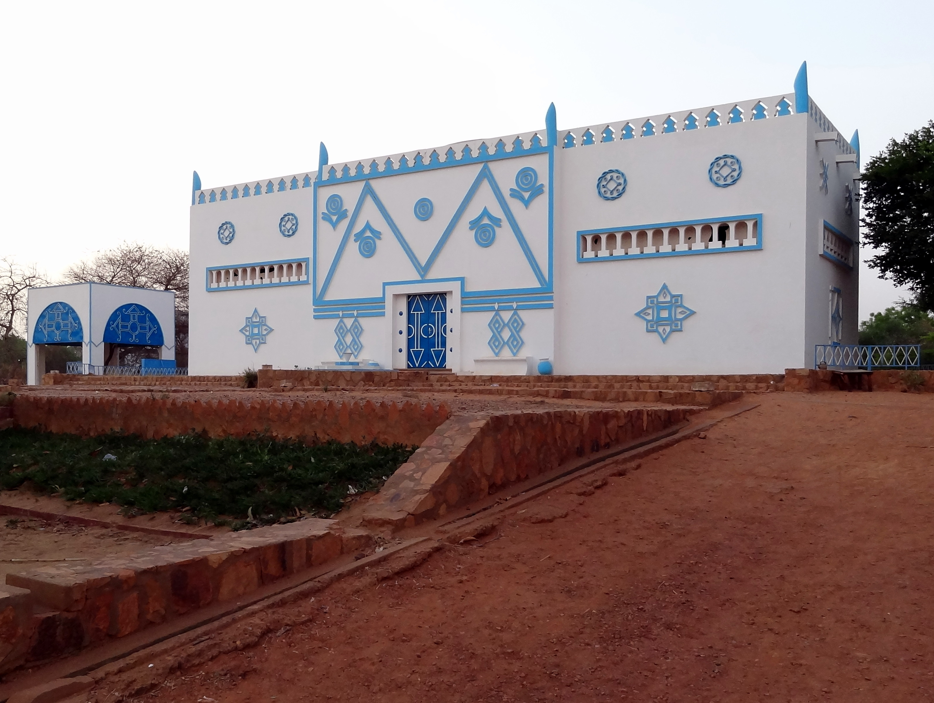 The Boubou-Hama national Museum in 2011 in Niamey (formerly National Museum of Niger). Main building (in the middle) and the tree of Ténéré pavilion (on the left).